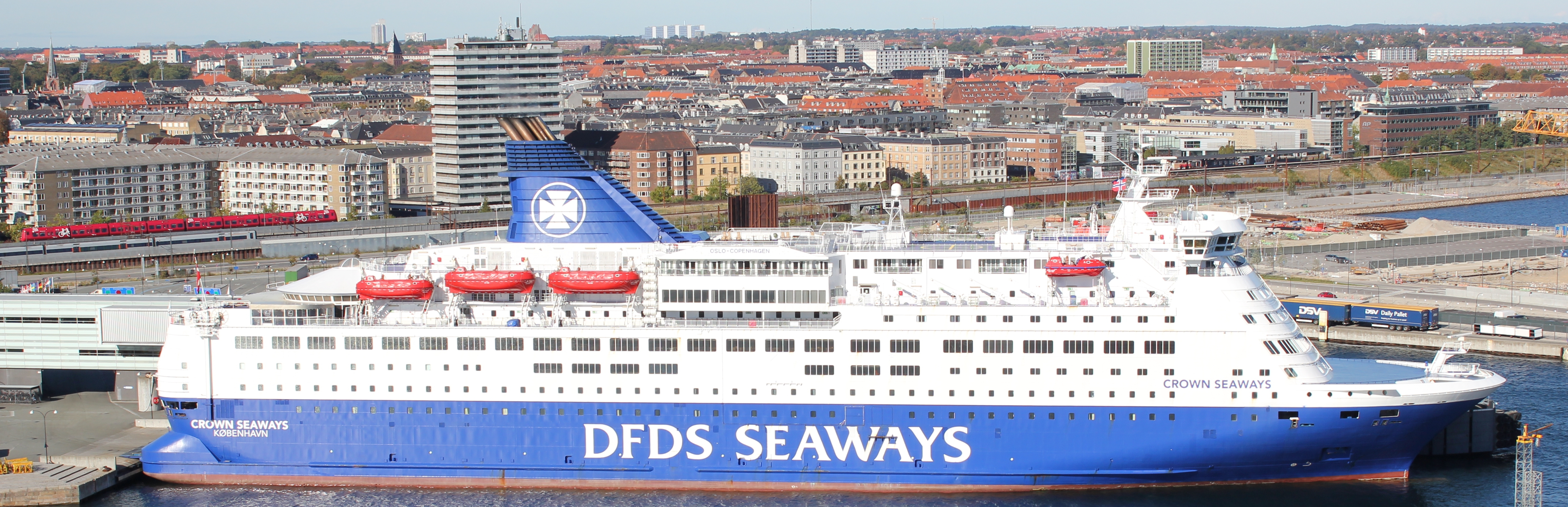 Passenger ferry DFDS Crown Seaways in Copenhagen